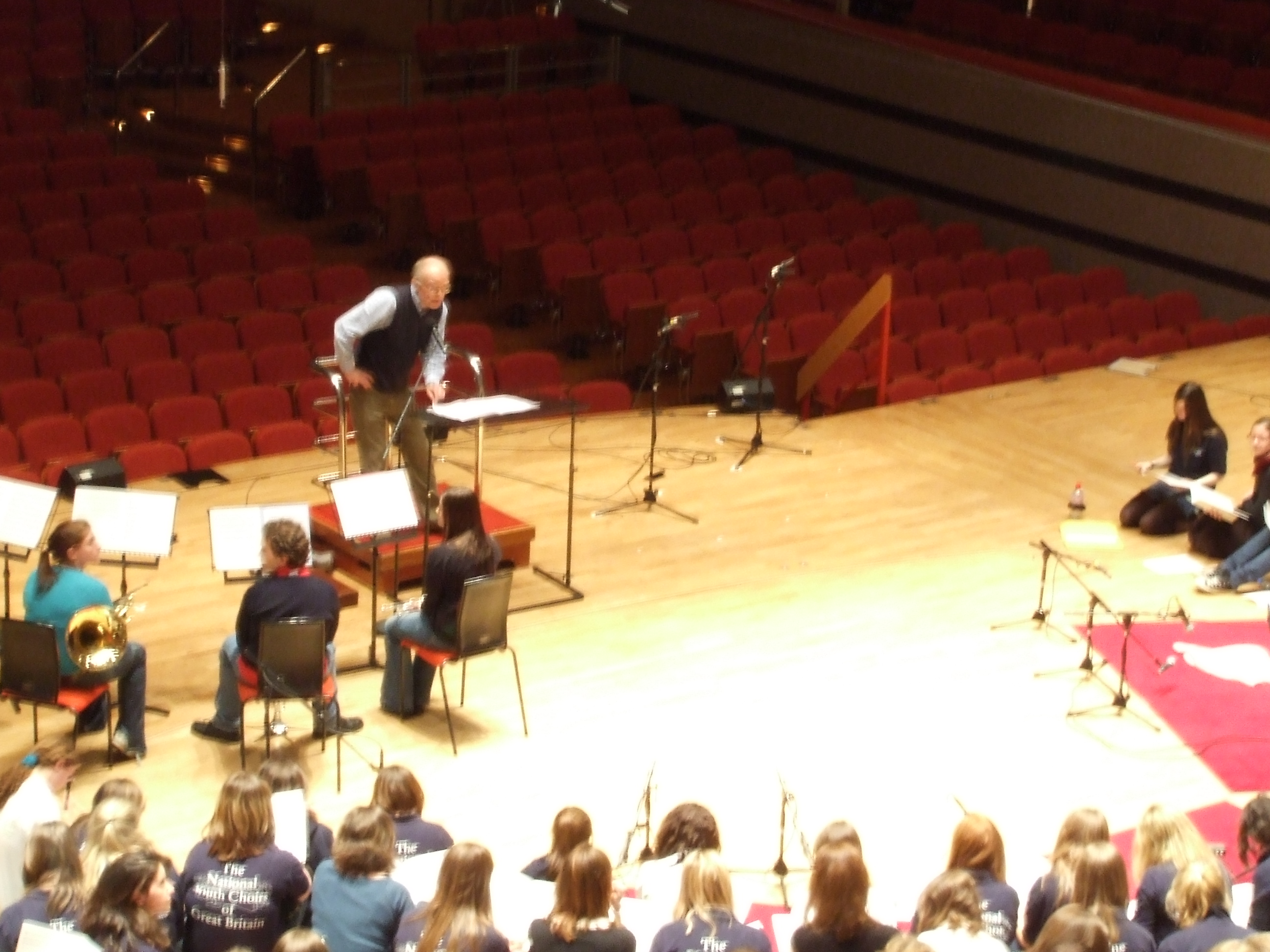 English composer and conducter John Rutter at rehearsals in the Birmingham Symphony Hall, Sunday 13 April 2008.